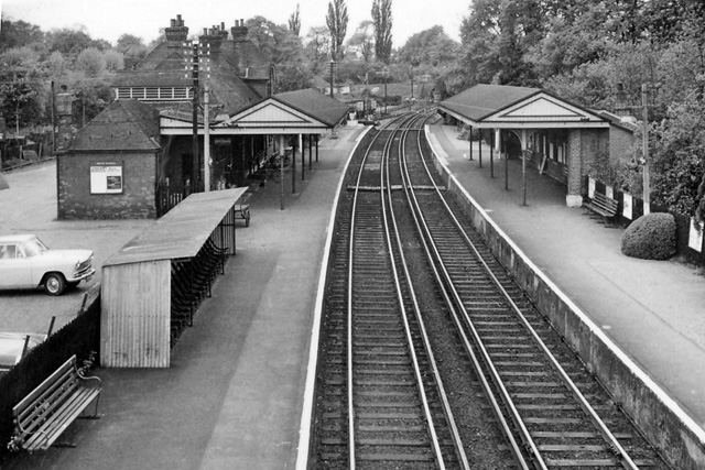 Bookham Station. View westward, towards Effingham Junction and Guildford; ex-LSWR (London) - Epsom - Leatherhead - Effingham Junction - Guildford line - still going strong.